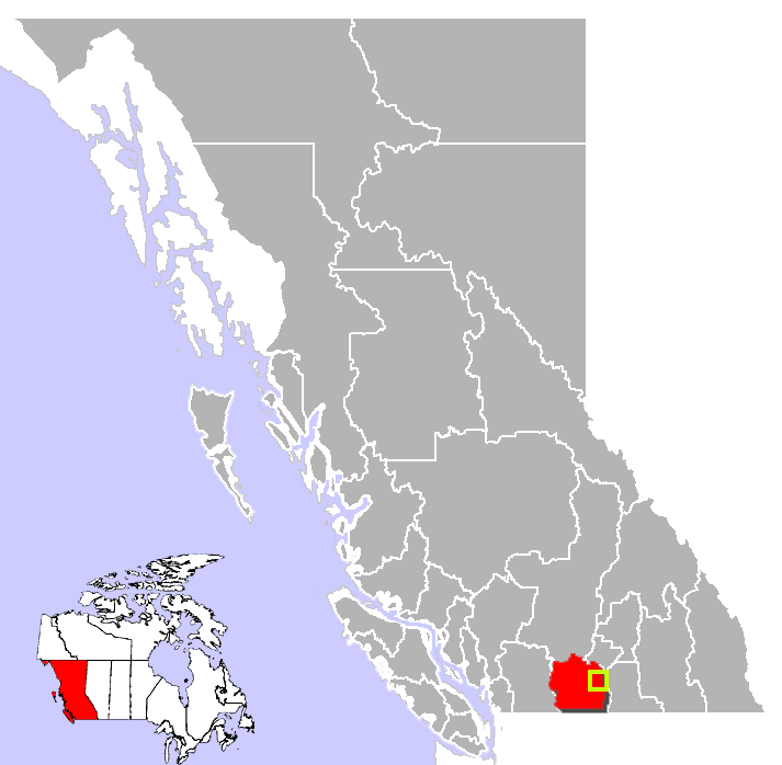 Penticton, British Columbia location.